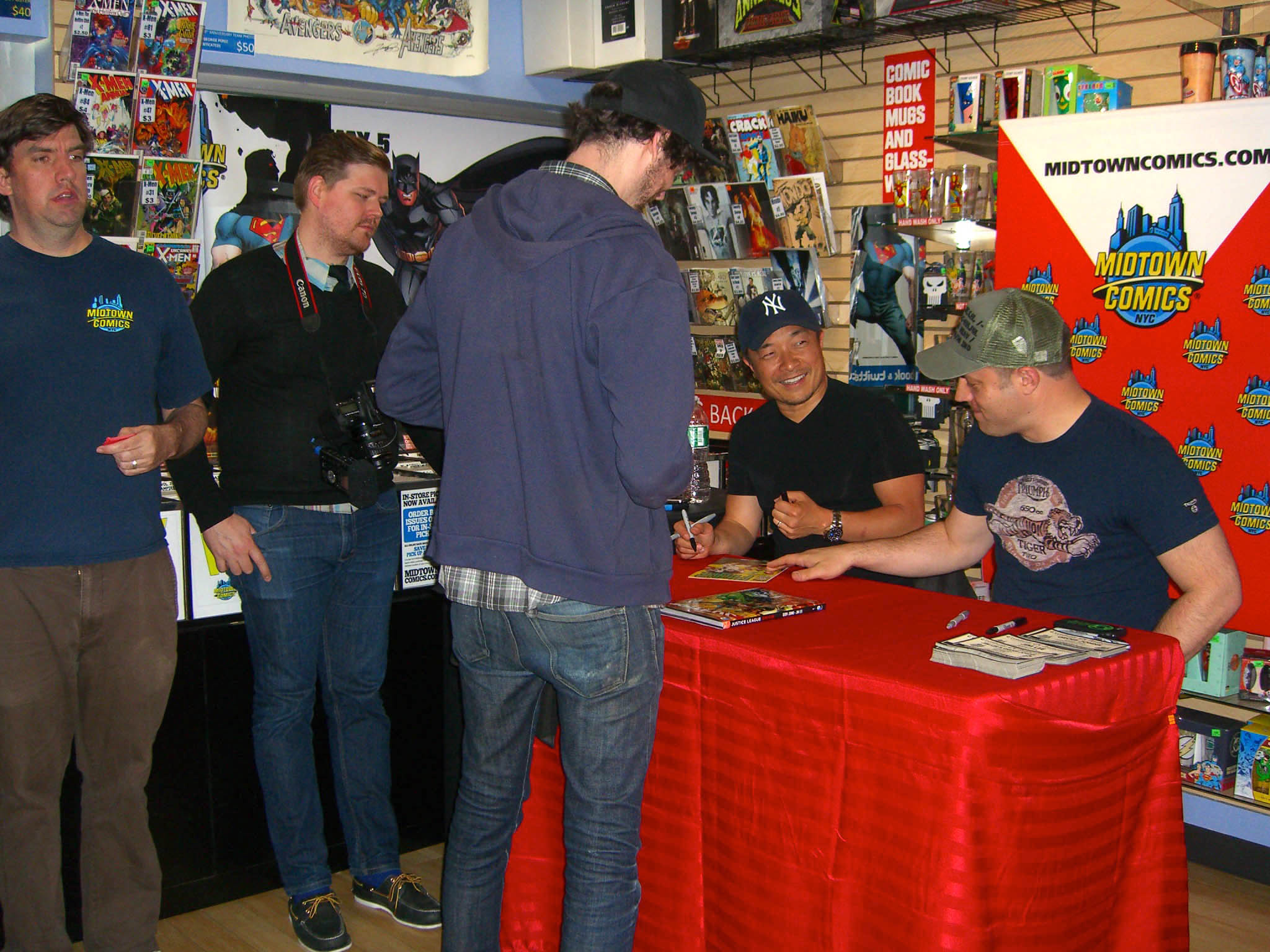 Comic book creators Jim Lee and Geoff Johns (seated at table, left to right) at a May 11, 2012 signing at Midtown Comics Downtown in Lower Manhattan for Justice League Vol. 1: Origin, the hardcover collection of the first six-issue story arc of Justice League volume 2, the monthly series whose debut in September 2011 initiated The New 52, the company-wide relaunch of all of DC Comics' superhero titles. This photo was created by Luigi Novi. It is not in the public domain, and use of this file outside of the licensing terms is a copyright violation.